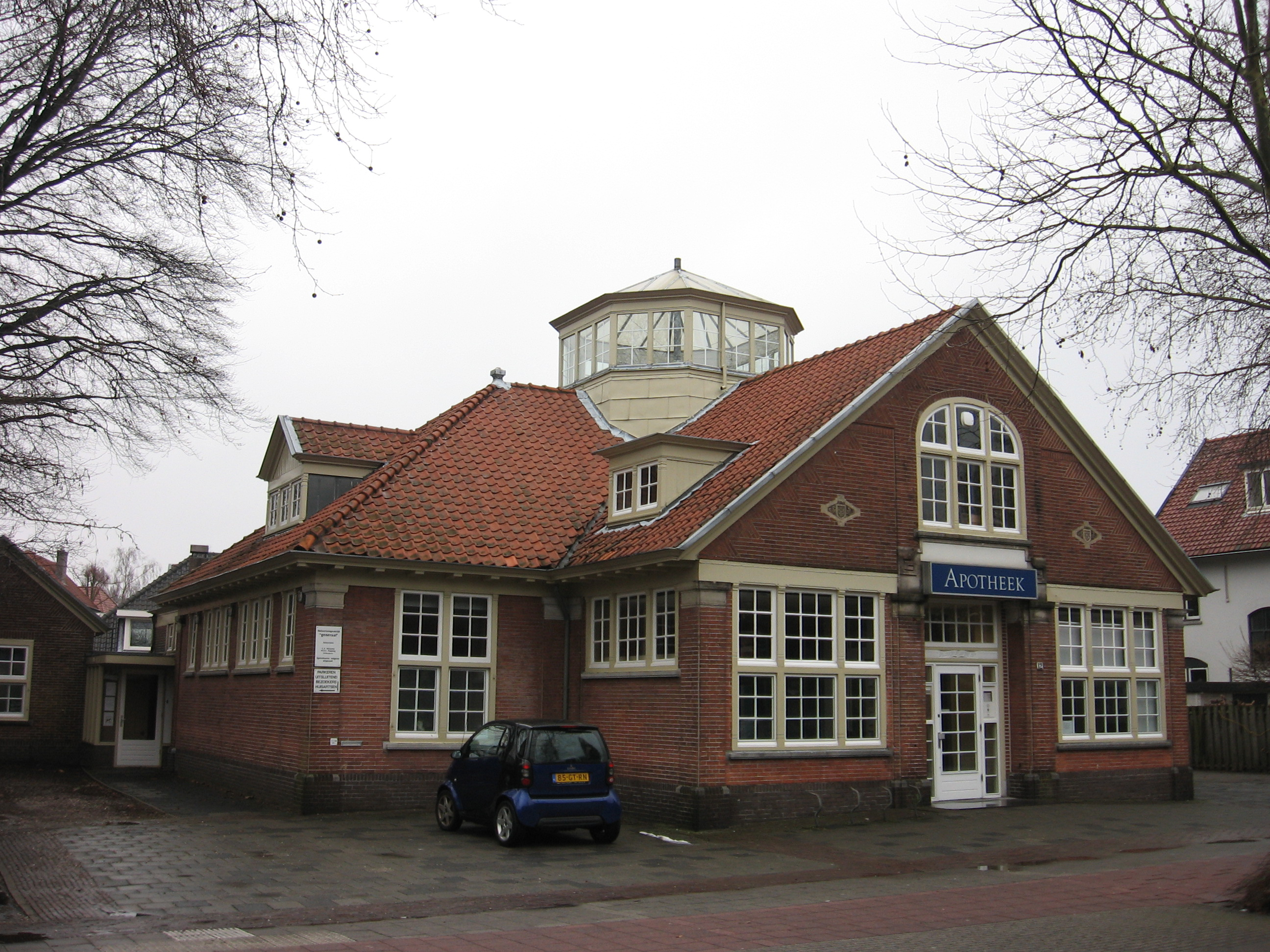 Bussum - Voormalige bibliotheek - Generaal de la Reijlaan 12a